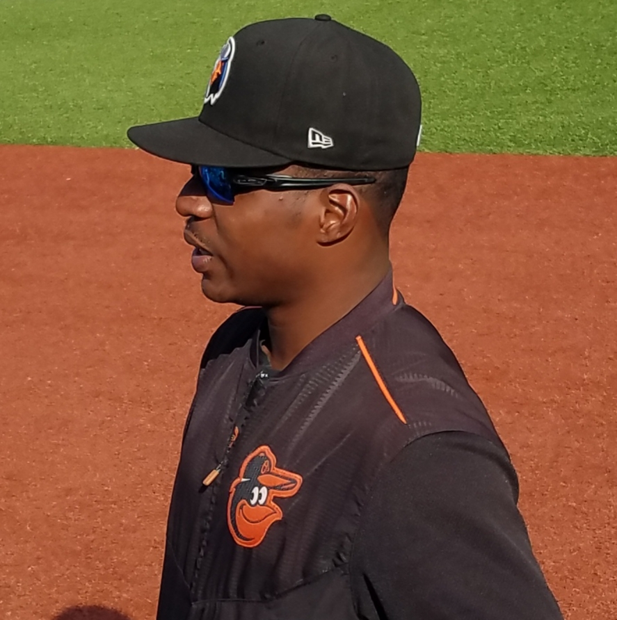 Tim Raines, Jr. serving as hitting coach of the Aberdeen IronBirds during a 2018 game at Dutchess Stadium in the Town of Fishkill, New York.